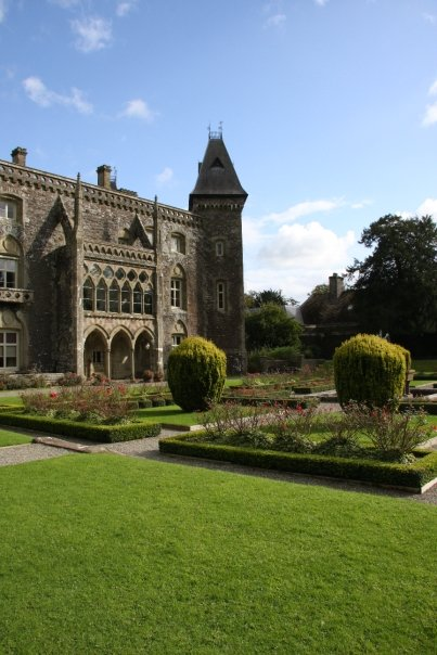 Gardens at Newton House taken by Roger lewis, October 2008